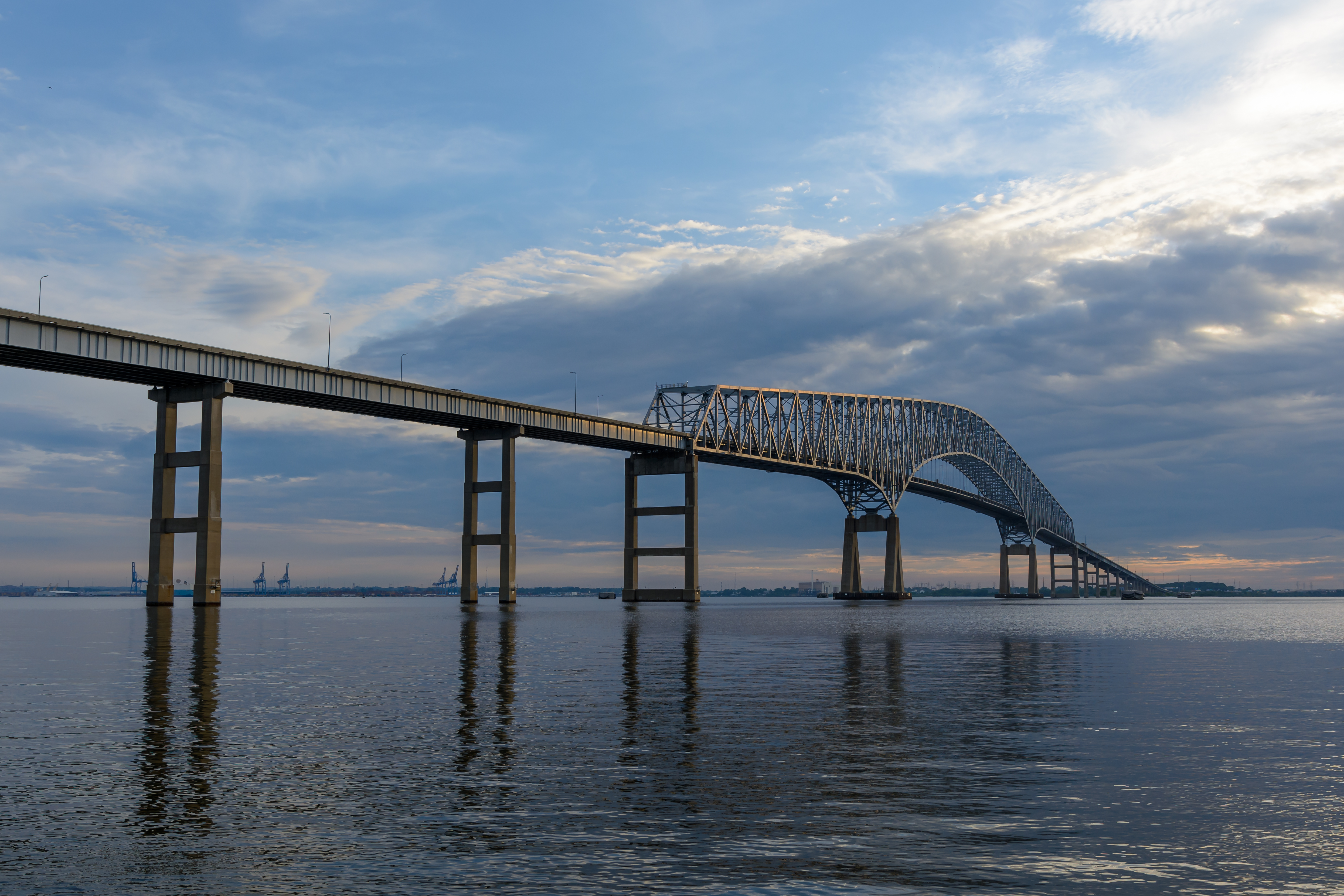 An image of the Francis Scott Key Bridge in Baltimore. Taken in Fort Armistead Park.